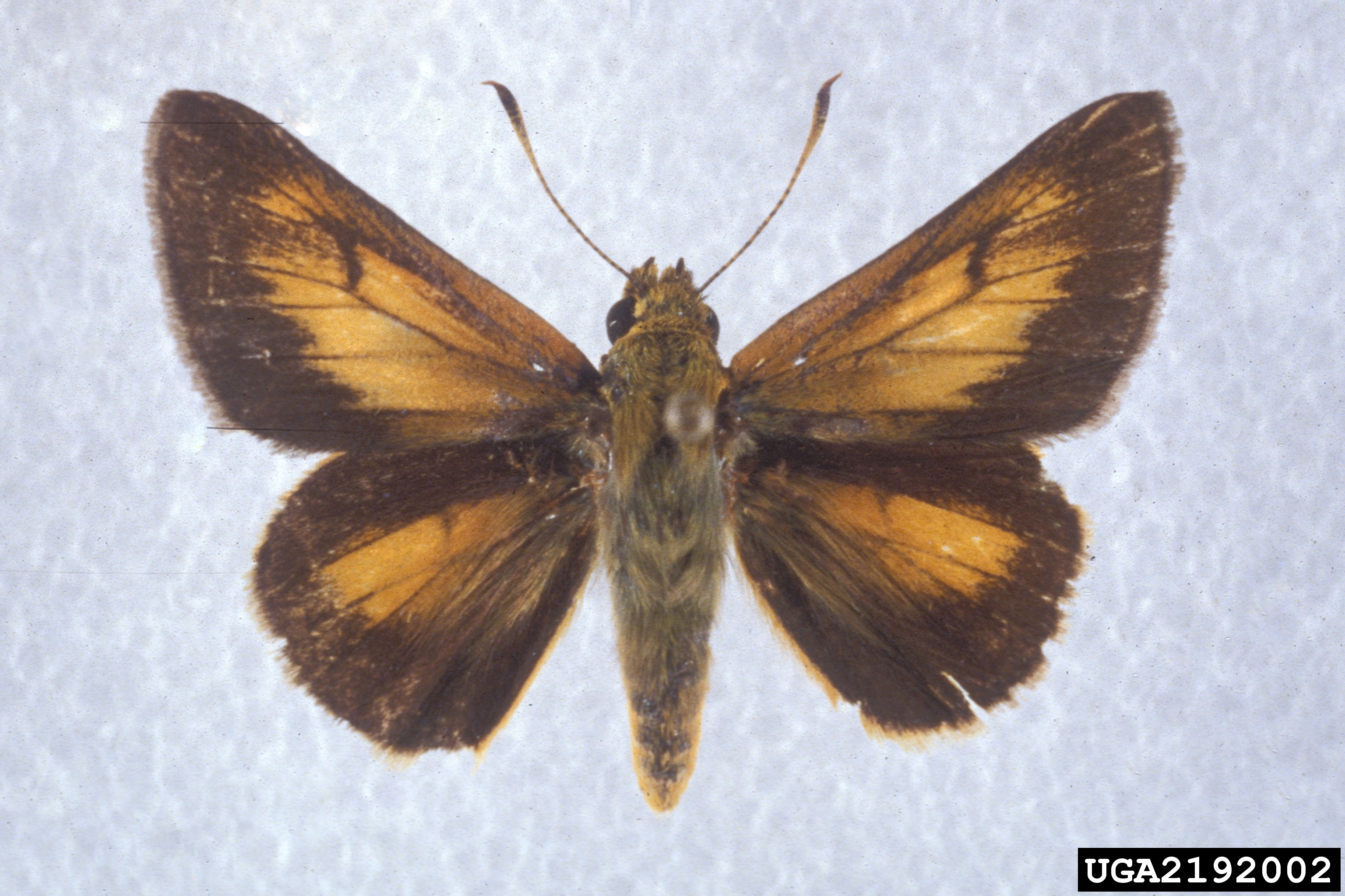 Problema bulenta. Jasper County, South Carolina, United States.